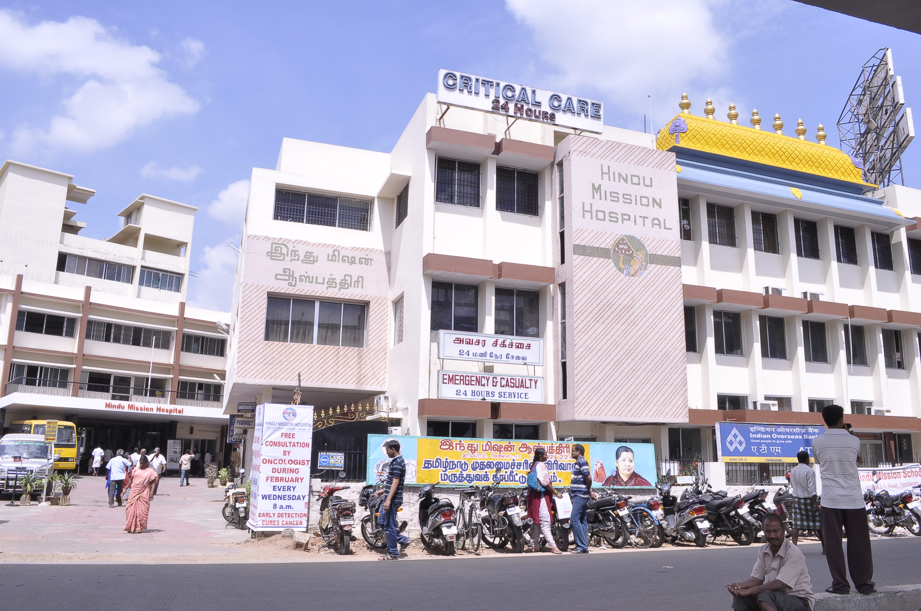 Building